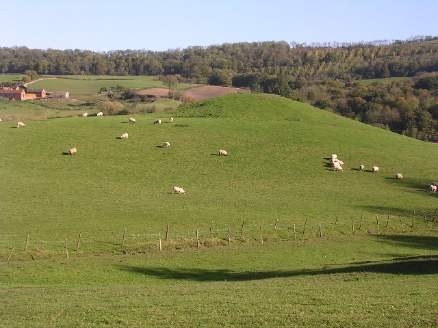 The grassy mound remains of Homme Castle, some 4 miles south of Great Witley, Worcestershire, England.